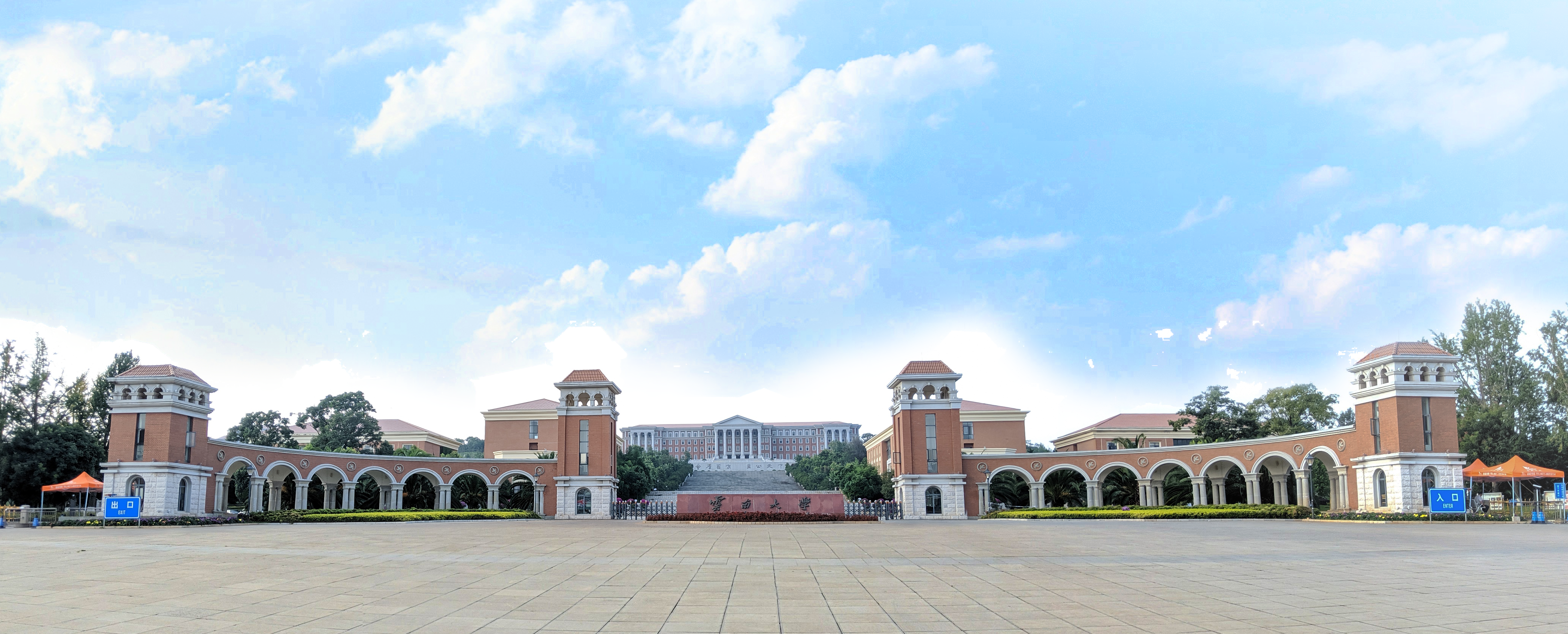 the main gate of Yunnan University Chenggong campus.